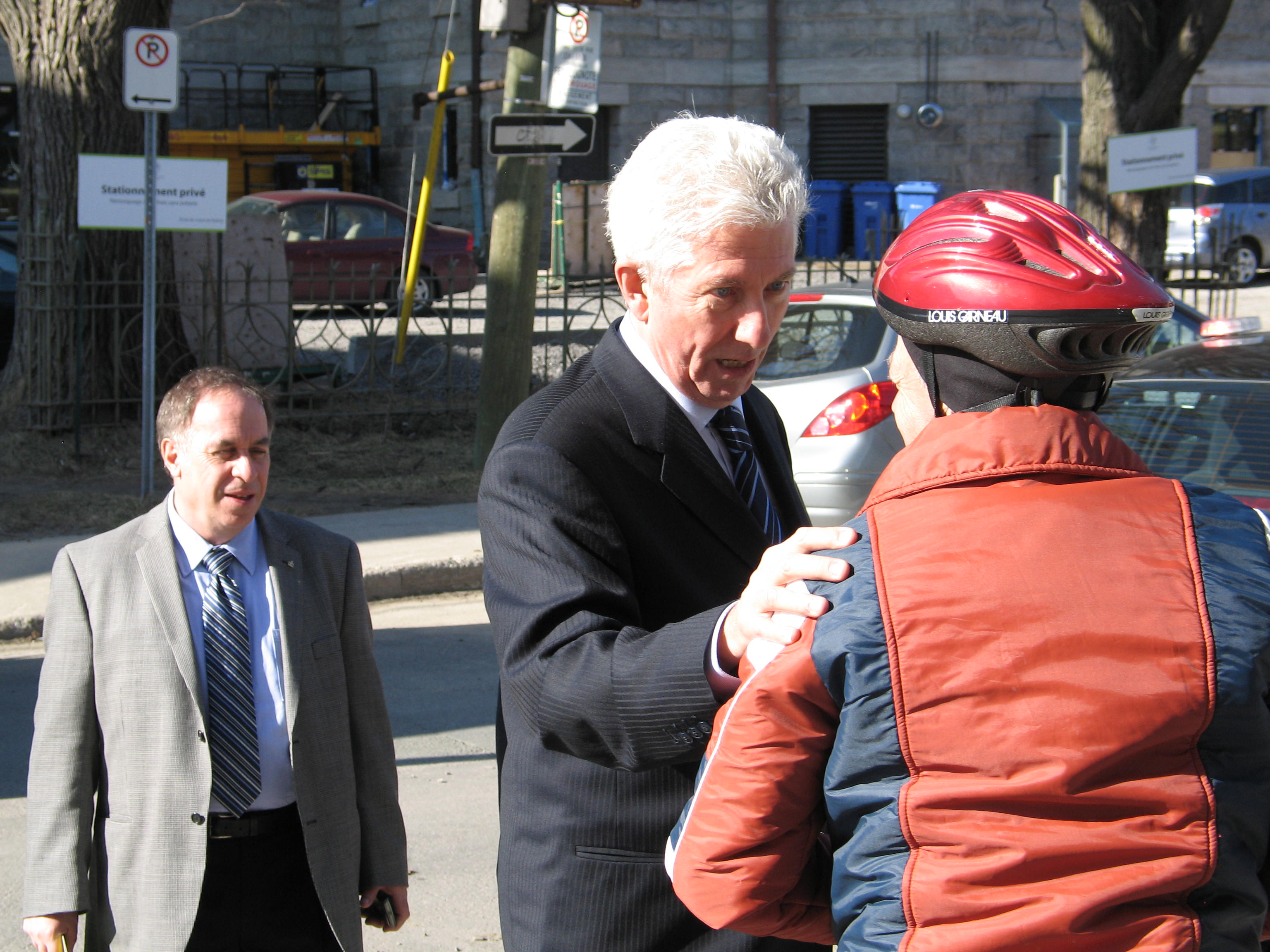 Bloc Québécois leader discusses with a voter after attending an event at the École de cirque de Québec, in the La Cité-Limoilou of Quebec City, on April 15, 2011.